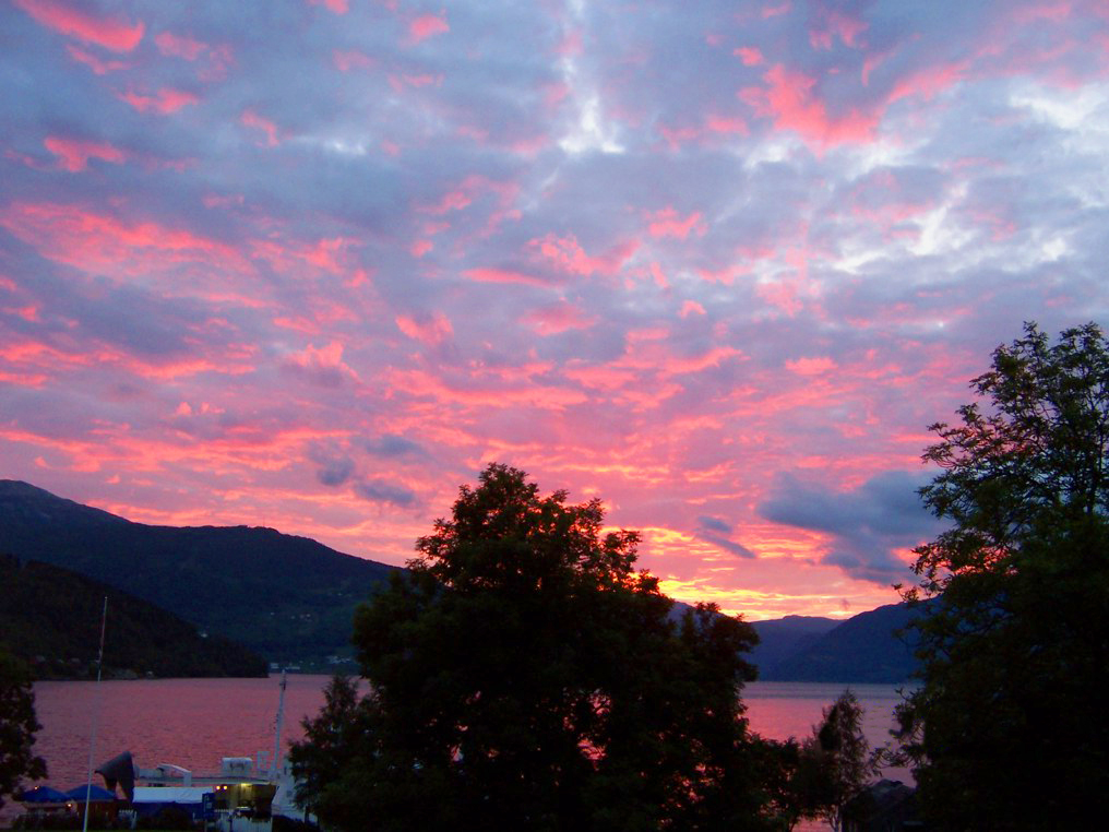 Kinsarvik Norway at Midnight in Summer 2004.